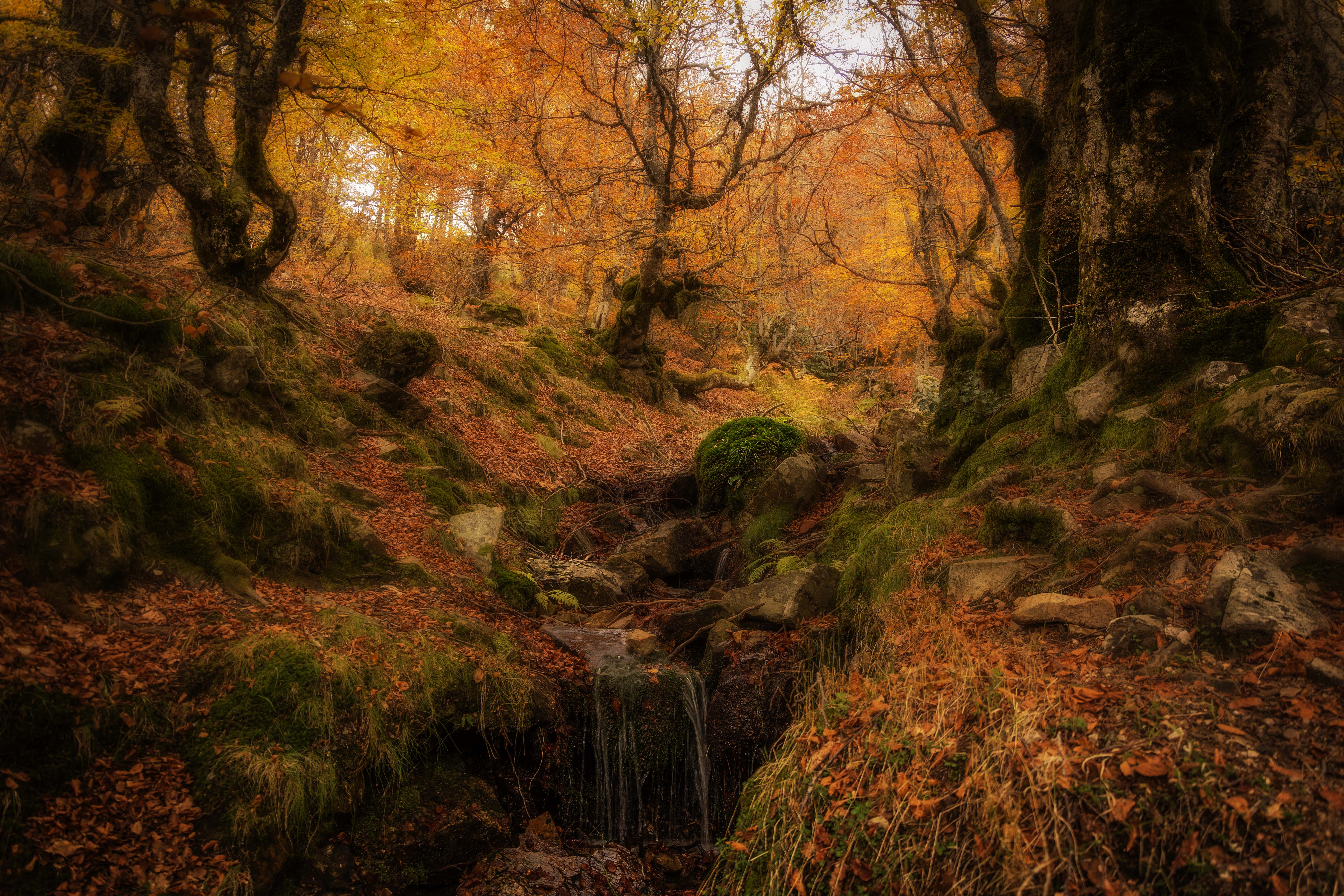 This is a photography of a Site of Community Importance in Spain with the ID: ES4160019. Natura2000 entry, EEA entry